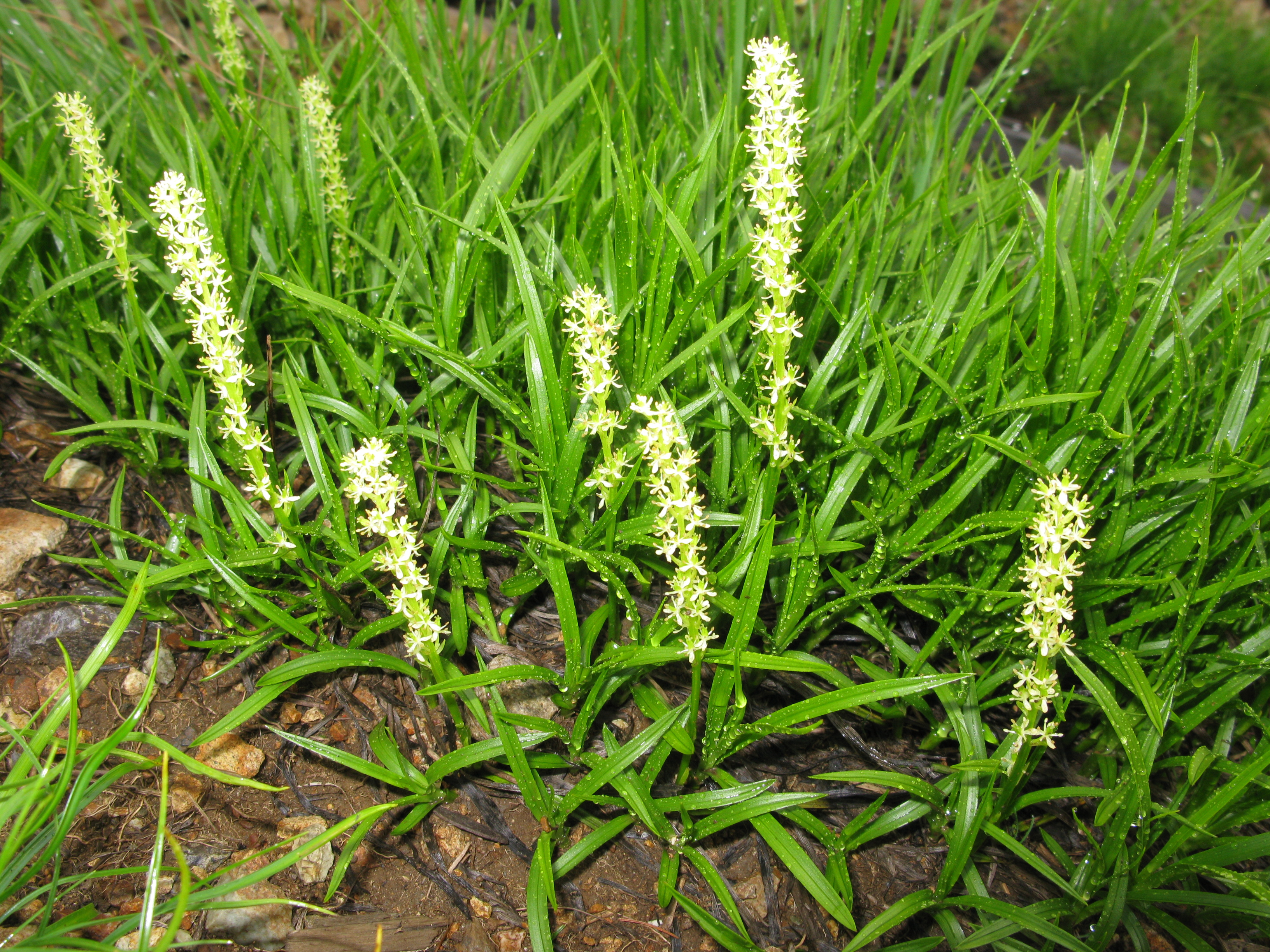 Japonolirion osense, Mount Shibutsu, Gunma pref., Japan